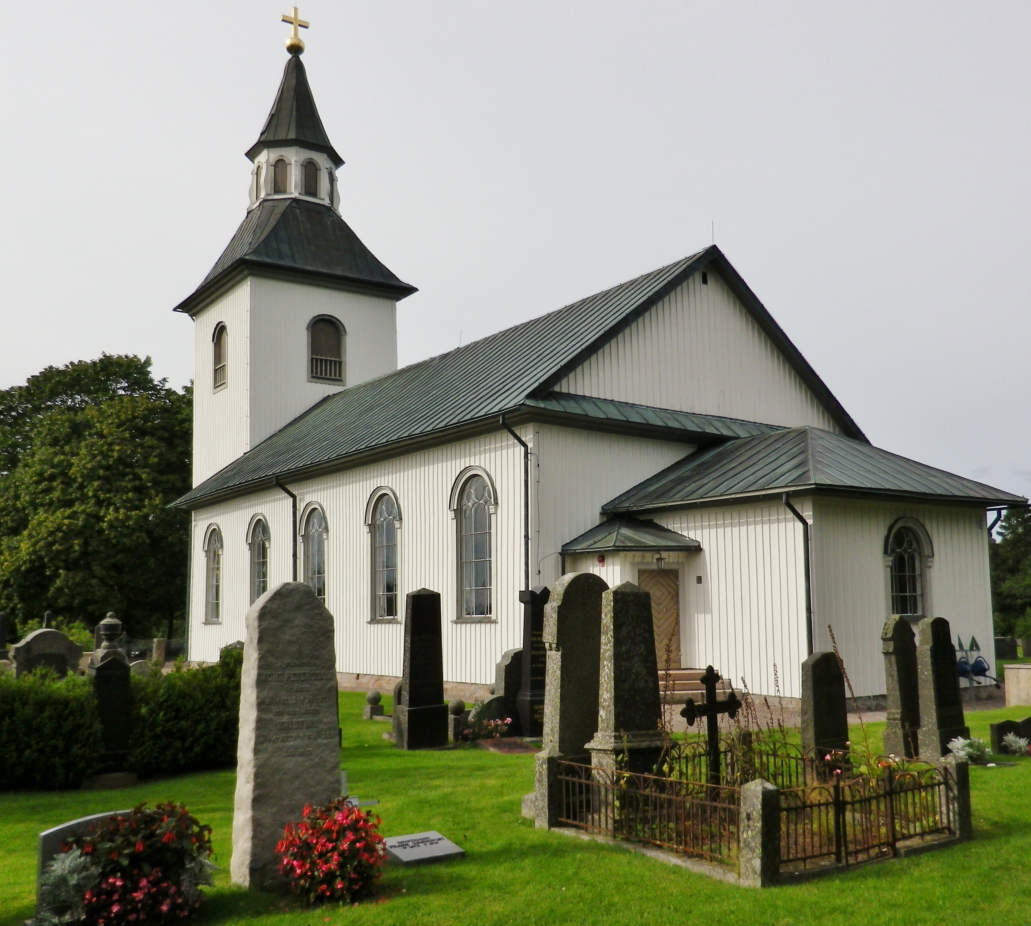 Herråkra church